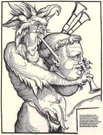 The caricature shows a fat monk, used as bagpipe by the devil. The monk-bagpipe is not Martin Luther (as asserted in some popular literature), but a representative of contemporaneous monasticism which is denunciated to be inspired by the devil. The German text says: Once I (the devil) piped here and there with such pipes, which where very numerous. I piped many fairy tales, dreams and fantasies. Now it's over and the pipes destroyed (by the Lutheran reformation) which makes me sad and angry. But I hope this won't last long because in the world there is enough haughtiness, sin, fraud and ruse.